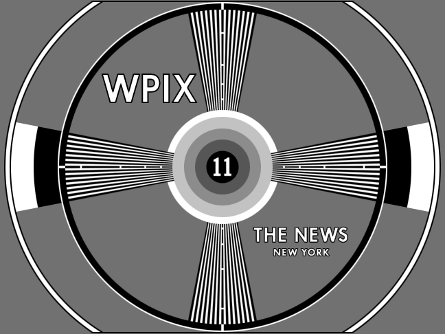 Early WPIX test pattern, used from 1949 to the mid-1970's.